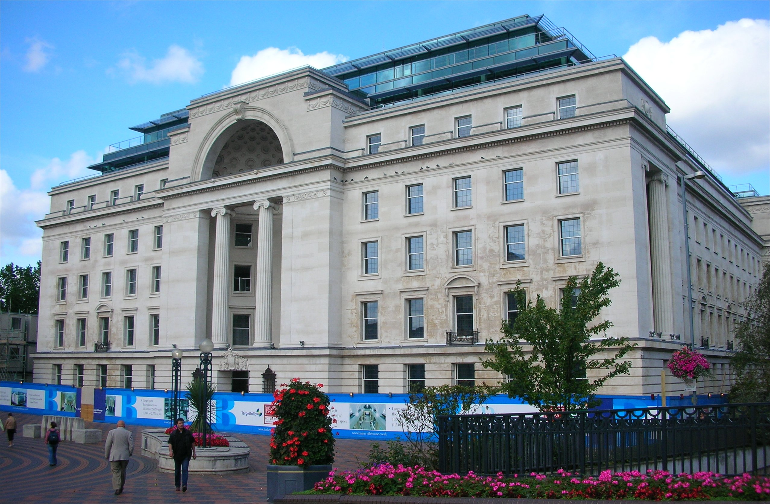 Front of Baskerville House, Birmingham, England, after refurbishment and new top floor. Photographed by me 18 September 2006. Oosoom